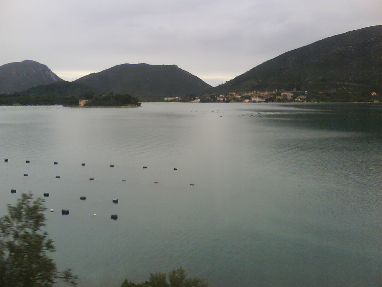 Channel of Mali Ston, east shore